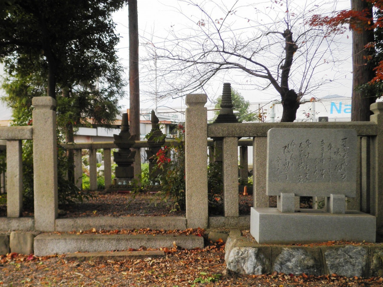 Graves of Haruō and Yasuō who were sons of Ashikaga Mochiuji in Tarui, Gifu.